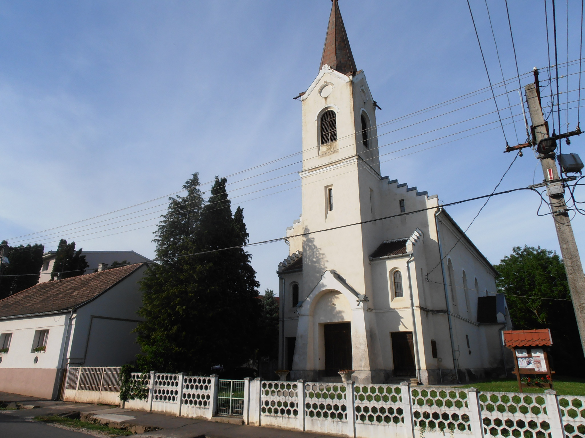 Calvinist church in Kaposmérő, Hungary